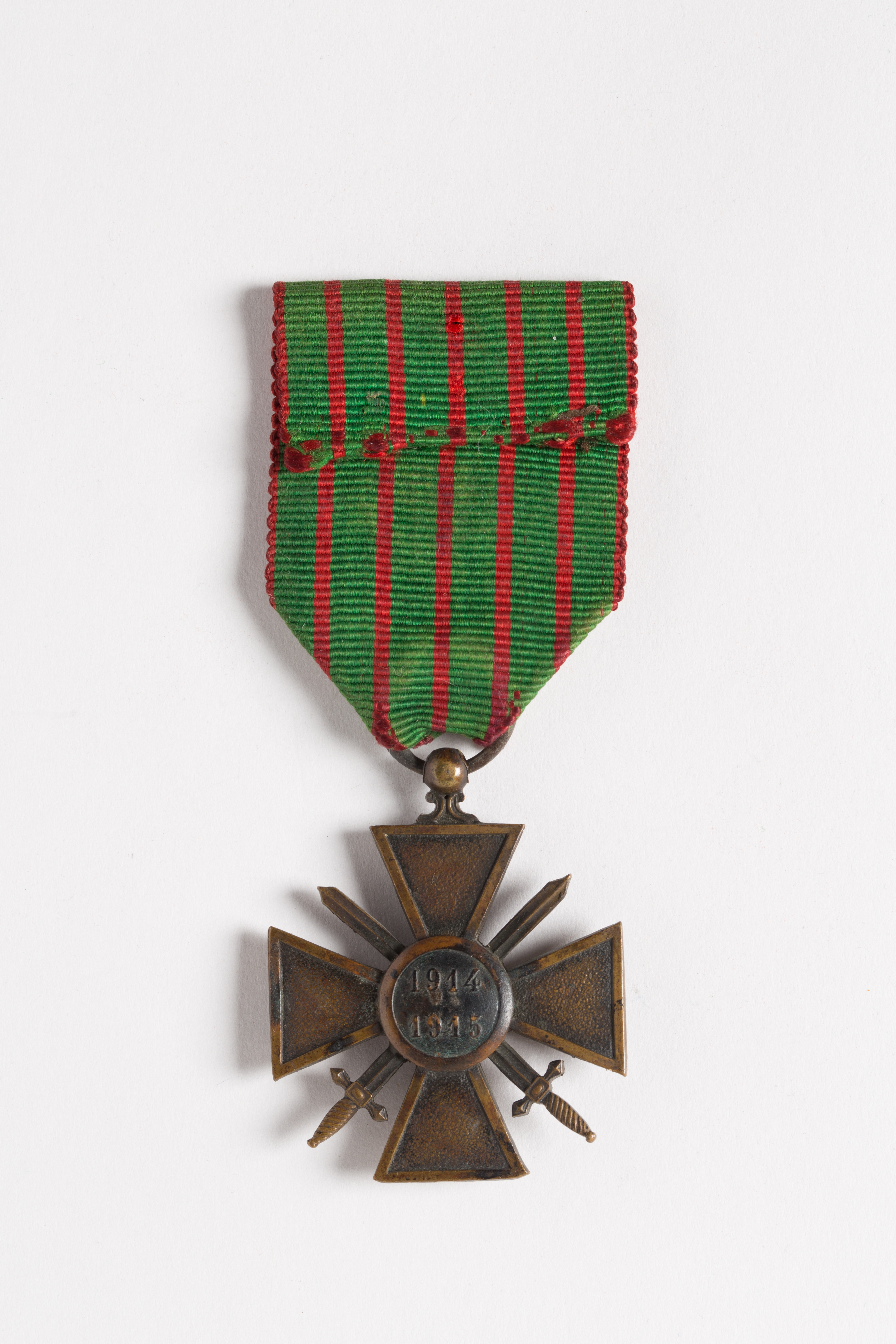 Croix de Guerre 1914-15 (French) Awarded to Sister Lily Lind, French Flag Nursing Corps, WW1 bronze coloured medal of cross with crossed swords, female bust in centre, ribbon attached by loop, wide green and thin red vertical stripes with single metal star attached in centre; engraved verso- 1914-15